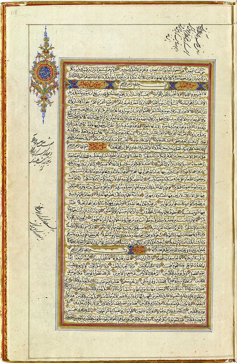 Scan of a Qur'an from the year 1874